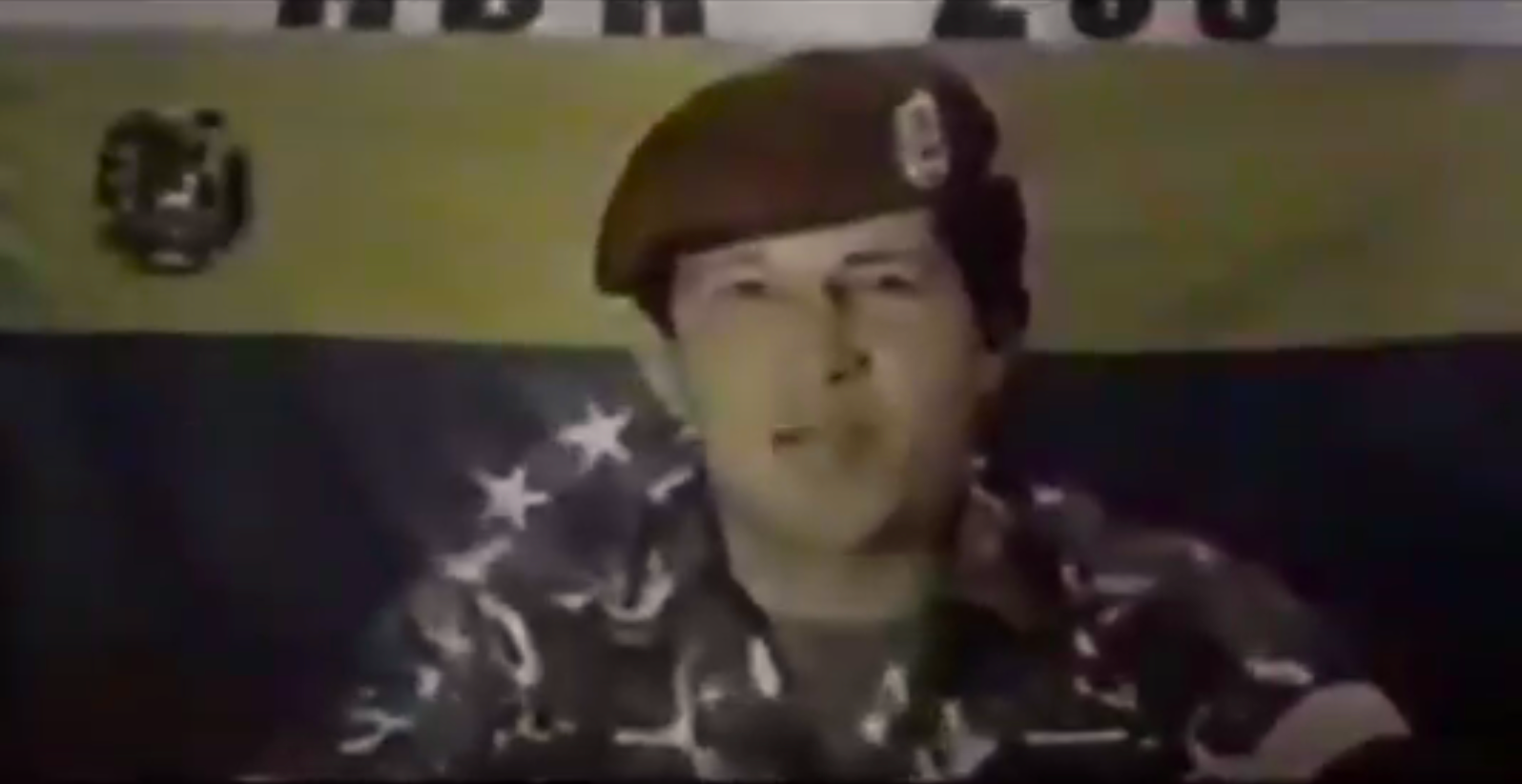 A still image from the video Chávez released during the November 1992 coup attempt.